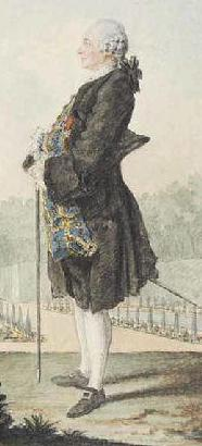 "Le chevalier de Valori". Louis Guy Henri de Valori (1692-1774), French general and diplomat.